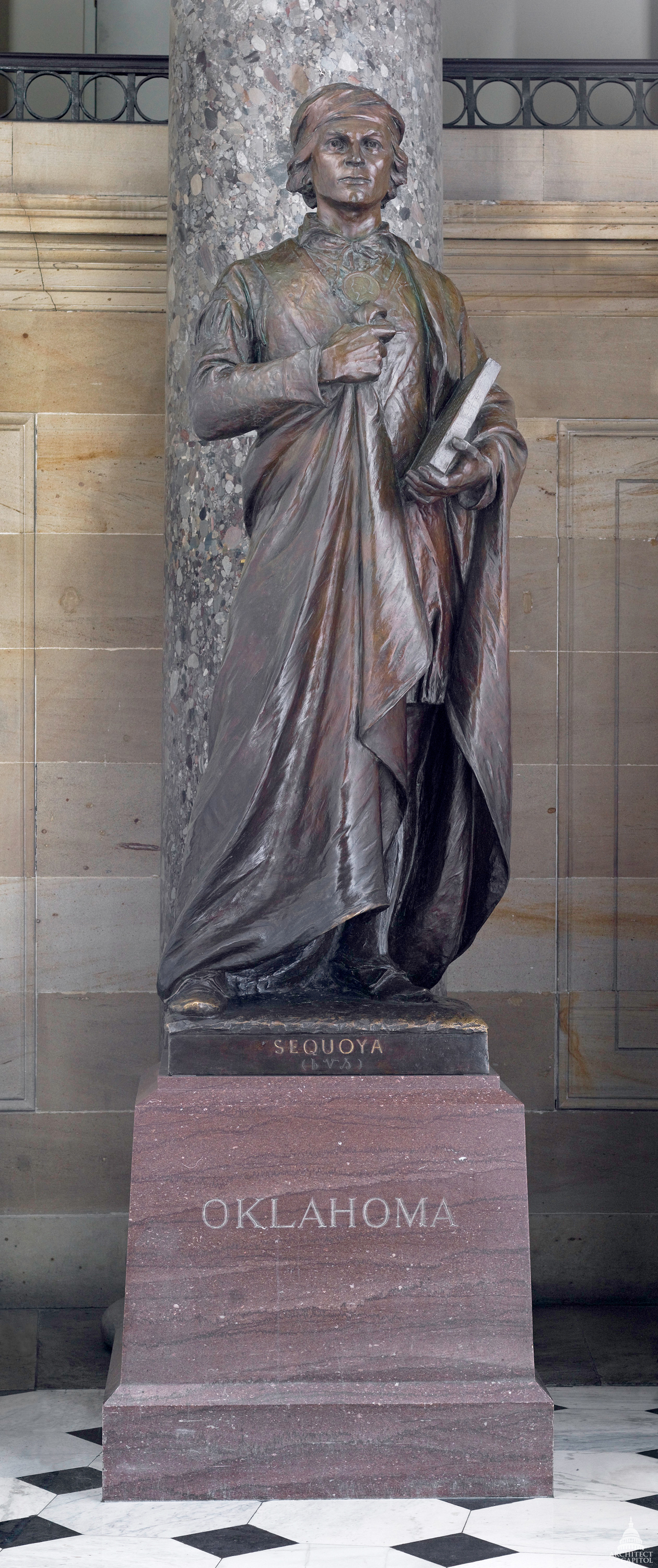 Sequoya (1770?-1843) Oklahoma Bronze by Vinnie Ream (completed by G. Julian Zolnay) Given in 1917 National Statuary Hall U.S. Capitol This official Architect of the Capitol photograph is being made available for educational, scholarly, news or personal purposes (not advertising or any other commercial use). When any of these images is used the photographic credit line should read “Architect of the Capitol.” These images may not be used in any way that would imply endorsement by the Architect of the Capitol or the United States Congress of a product, service or point of view. For more information visit